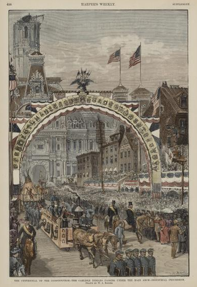 Carlisle Indian Students at the Centennial of the Constitution Parade, #2, 1887 Other information No.